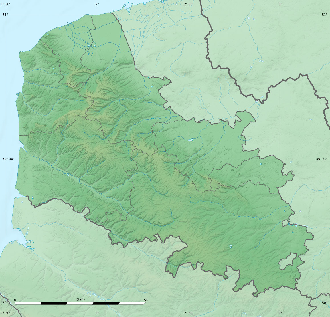 Blank physical map of the department of Pas-de-Calais, France, as in January 2007, for geo-location purpose, with distinct boundaries for regions, departments and arrondissements.